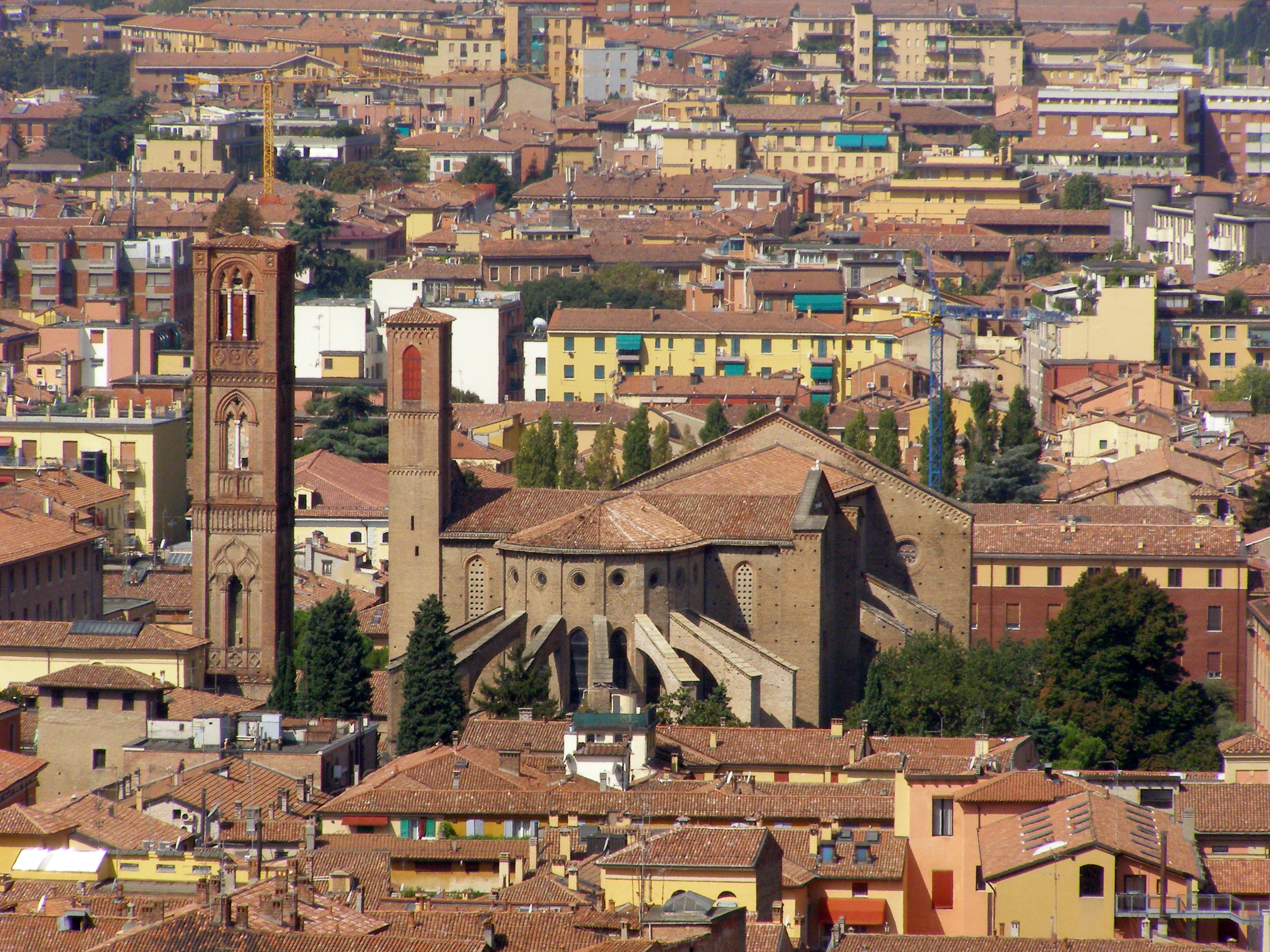 Bologna - view from the Asinelli Tower